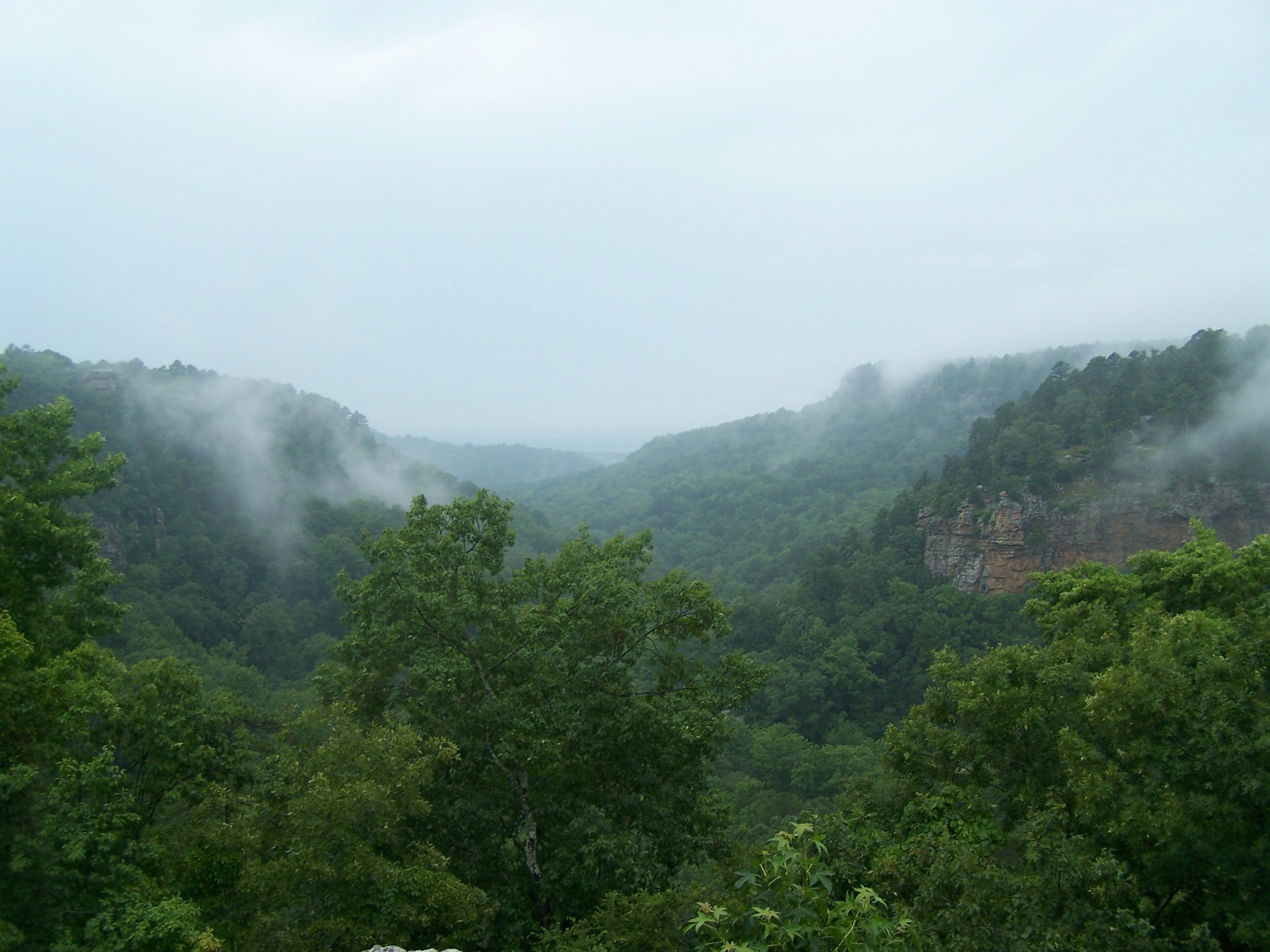 View from atop Petit Jean Mountain in Arkansas.